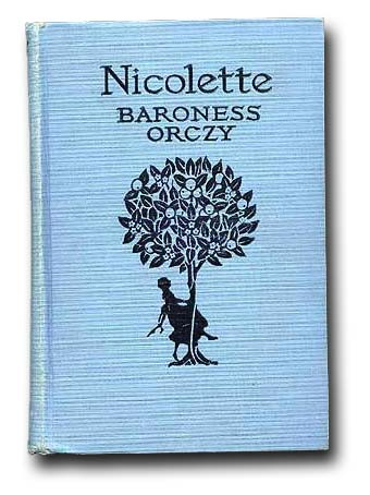 1922 US 1st edition. I produced this image. This book was published before 1 January 1923 and the cover image is therefore deemed to be in the public domain in the United States.